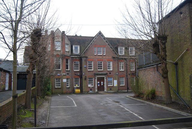 Homeopathic Hospital, Tunbridge Wells Funding was withdrawn in 2007. It is now closed.